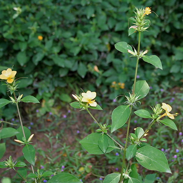 Porcupine flower, Espinosa amarilla or Picanier jaune Barleria prionitis in Hyderabad , India.